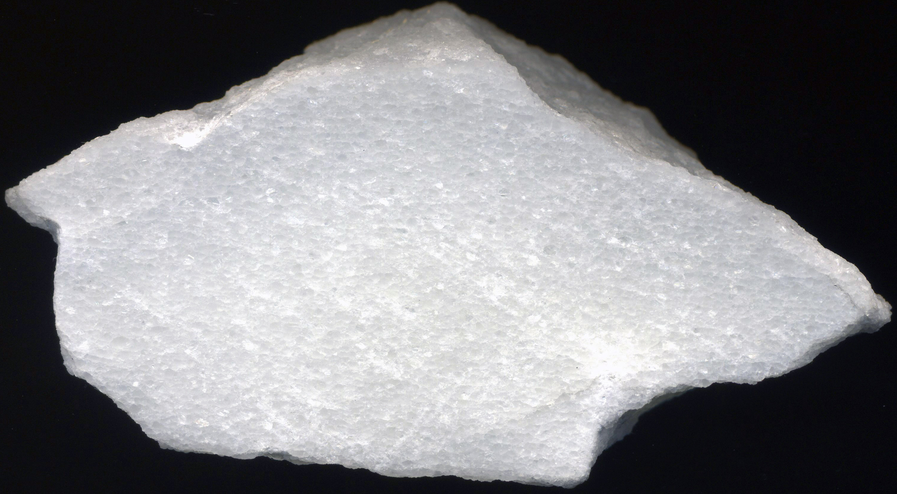 Marble from the Miocene of Colorado, USA. (6.2 cm across at its widest) Metamorphic rocks result from intense alteration of any previously existing rocks by heat and/or pressure and/or chemical change. This can happen as a result of regional metamorphism (large-scale tectonic events, such as continental collision or subduction), burial metamorphism (super-deep burial), contact metamorphism (by the heat & chemicals from nearby magma or lava), hydrothermal metamorphism (by superheated groundwater), shear metamorphism (in or near a fault zone), or shock metamorphism (by an impact event). Other categories include thermal metamorphism, kinetic metamorphism, and nuclear metamorphism. Many metamorphic rocks have a foliated texture, but some are crystalline or glassy. Marble is a common, crystalline-textured metamorphic rock composed of calcite (CaCO3 - calcium carbonate). It forms by intermediate- to high-grade metamorphism of limestone. Marble varies in color and crystal size, but is reliably identified by its crystalline texture, by bubbling in acid, and by not scratching glass (marble has a hardness of 3, while glass has a hardness of 5.5). The specimen shown above is from the Yule Marble, the state rock of Colorado, quarried near the town of Marble, Colorado, USA. Yule Marble formed by contact metamorphism of the Leadville Limestone (Mississippian). The igneous intrusion that metamorphosed limestone into marble is the Treasure Mountain Granite (Middle Miocene, 12 Ma). Geologic unit & age: Yule Marble, Middle Miocene, 12 Ma Locality: quarry near the town of Marble, northern Gunnison County, western Colorado, USA